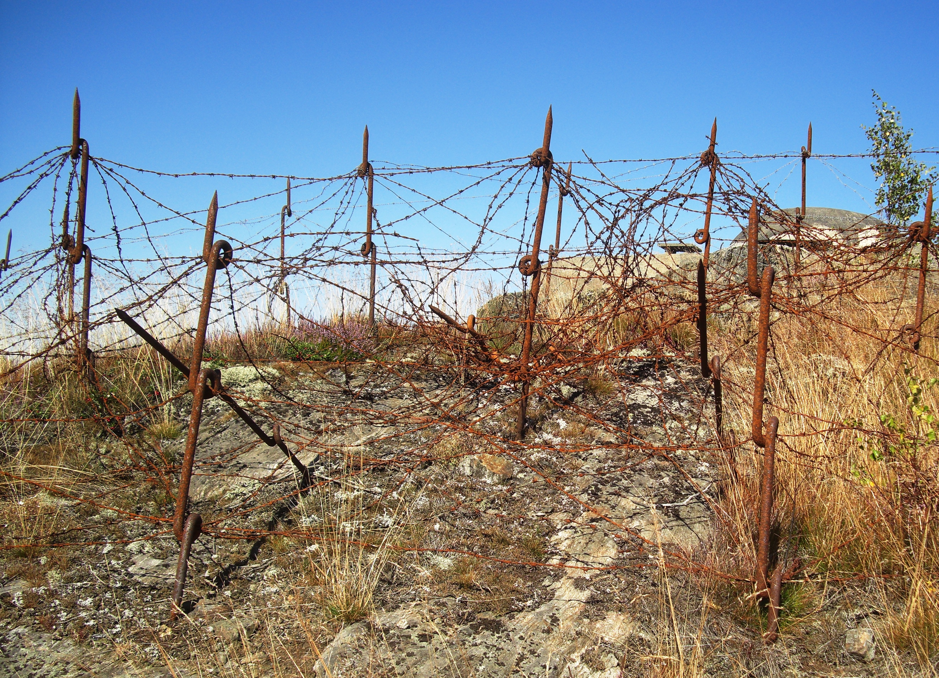 Barbed wire barrage, Høytorp fort